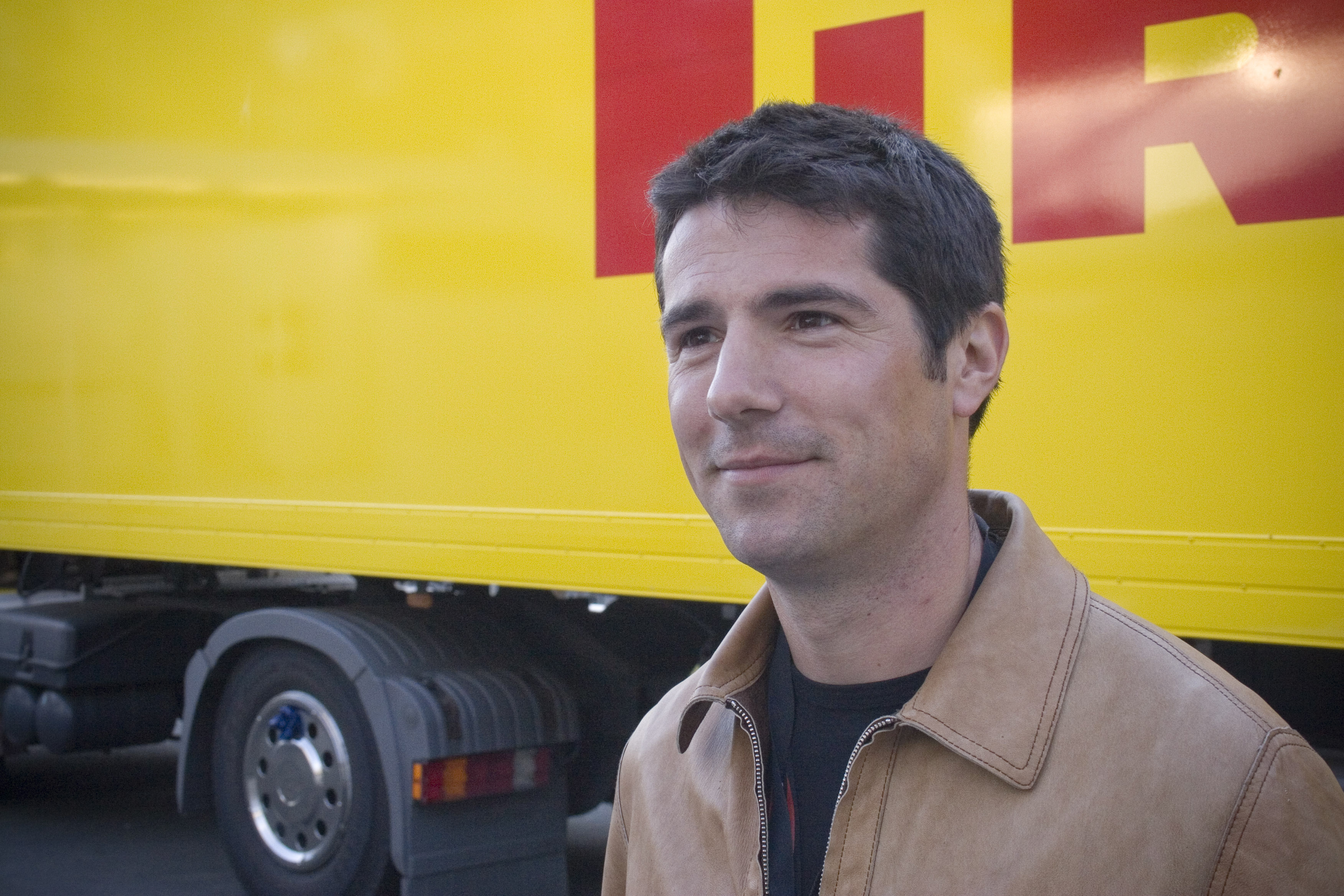 Presenter Craig Doyle in the television compound at the Isle of Man TT 2009